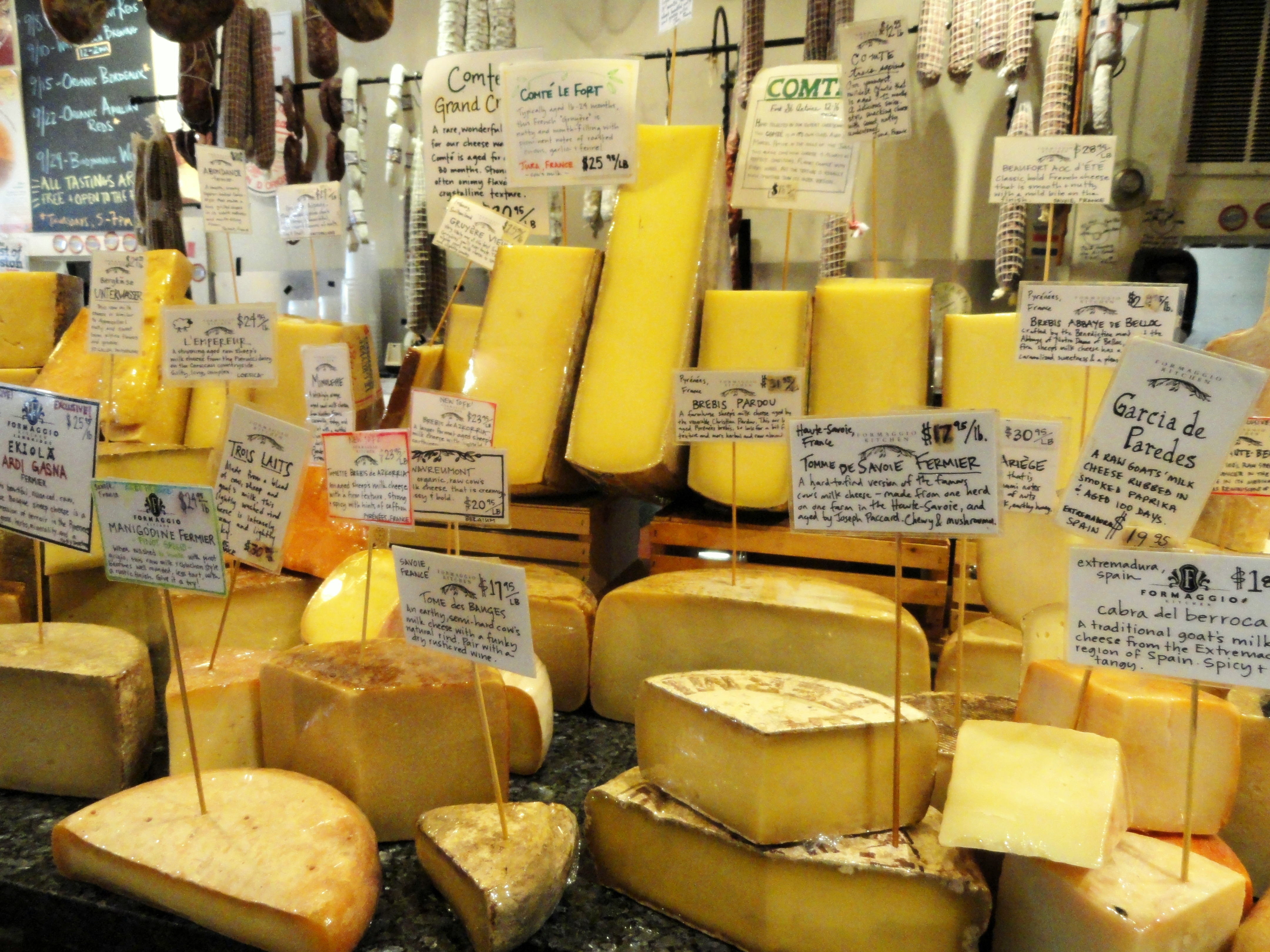 Cheese display in grocery store, Cambridge. Massachusetts, USA.